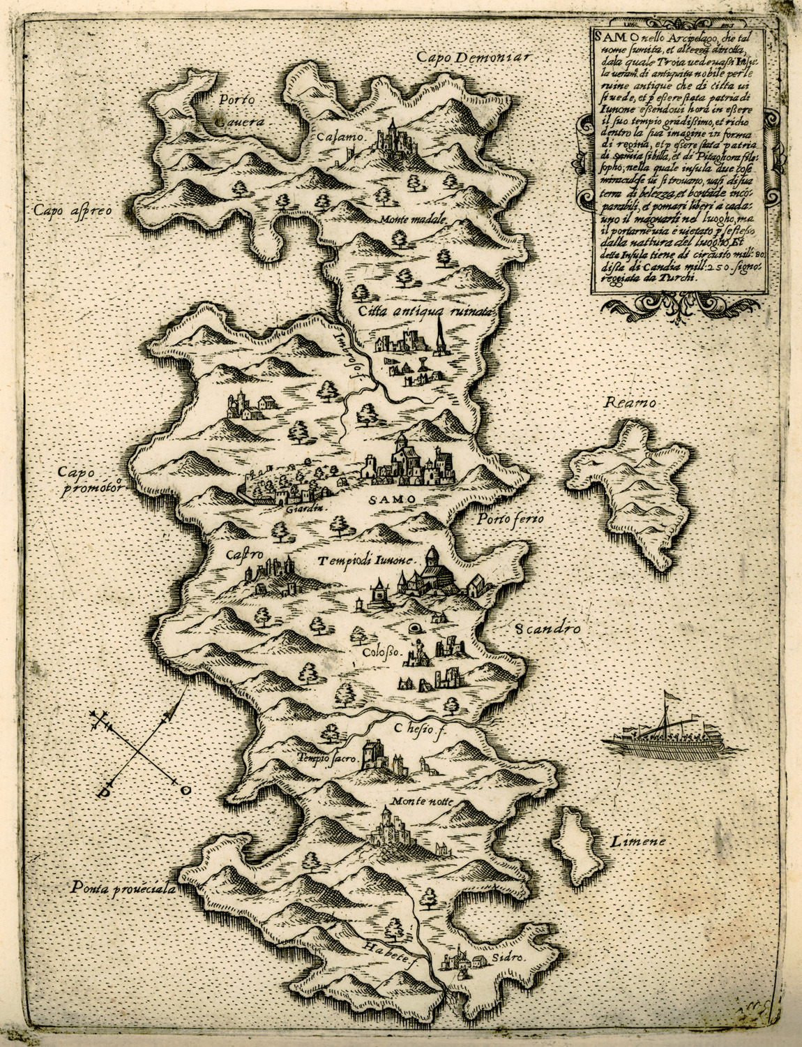 Giovanni Francesco Camocio. Isole famose porti, fortezze, e terre maritime sottoposte alla Ser.ma Sig.ria di Venetia, ad altri Principi Christiani, et al Sig.or Turco, Venice, alla libraria del segno di S.Marco (1574)